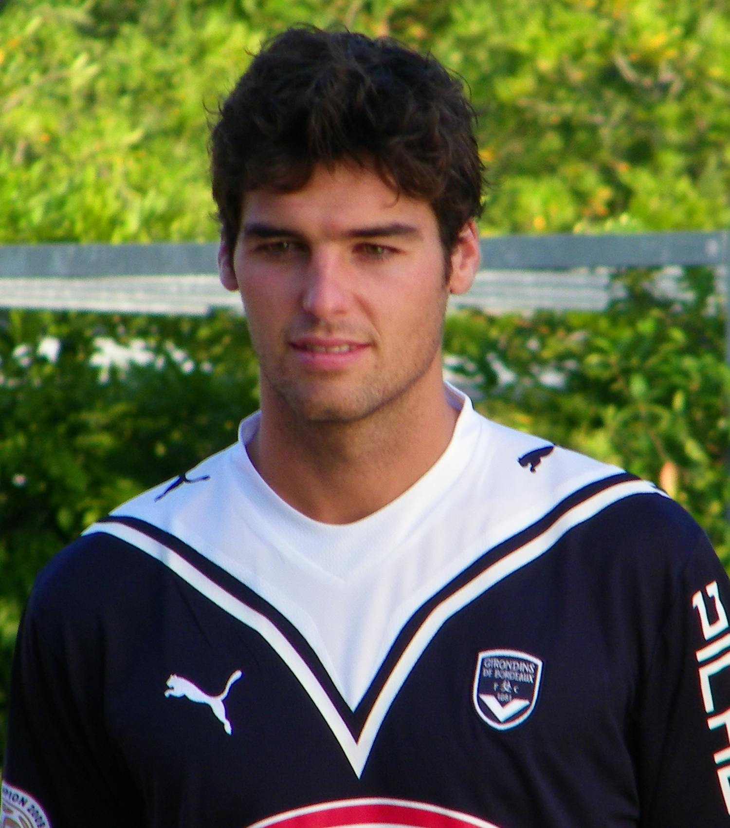 Yoann Gourcuff, player at FC Girondins Bordeaux. Taken by Valentin Trijoulet. Public domain.